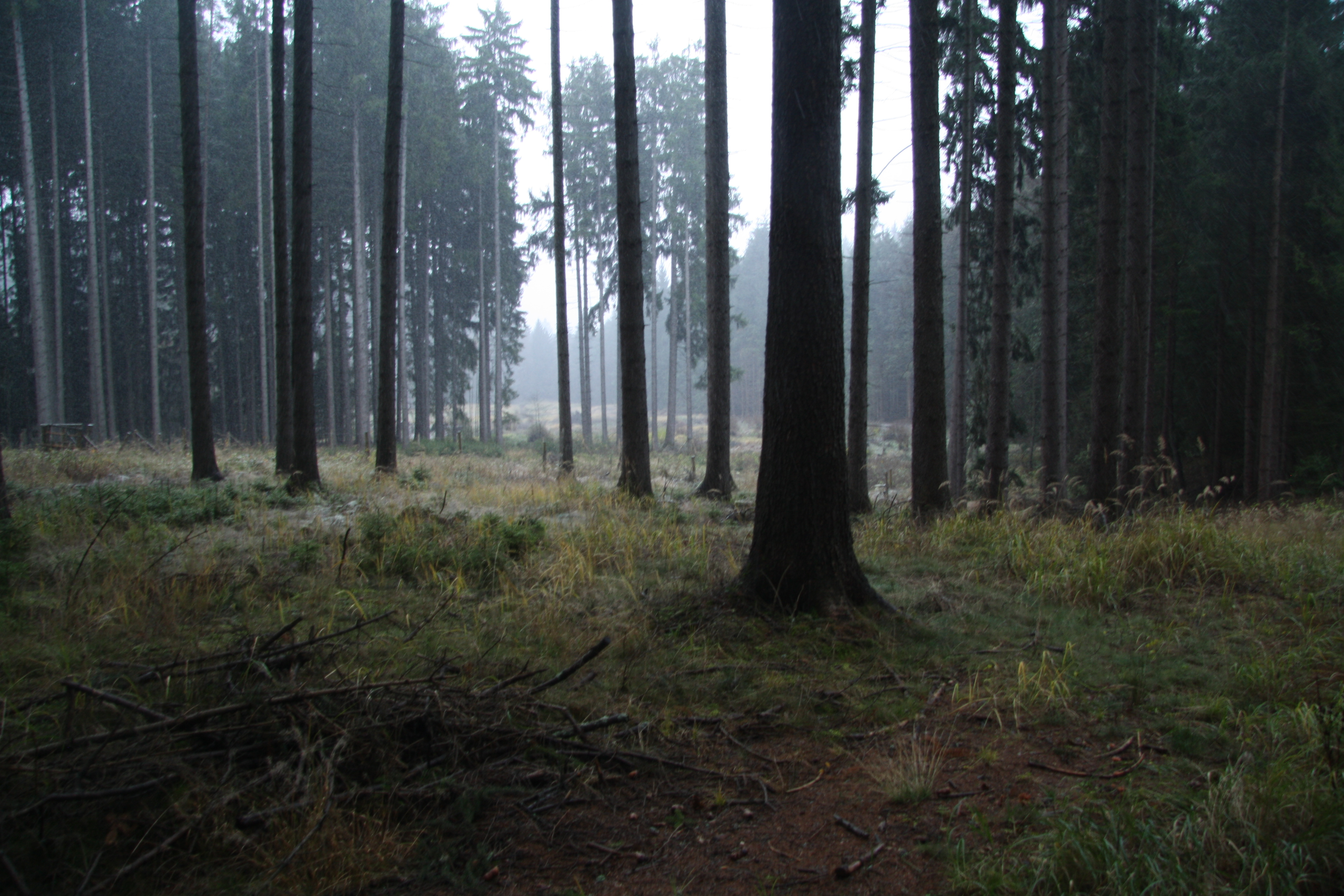 Place of village Střenč near Jestřebí, Brtnice, Jihlava District.